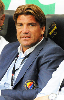 Bo Andersson (cropped version)